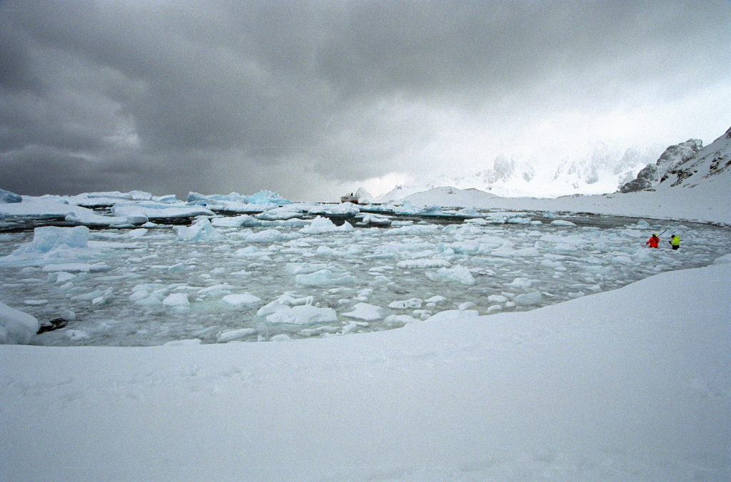 Taken on Cuverville Island of the Antarctic Peninsula.